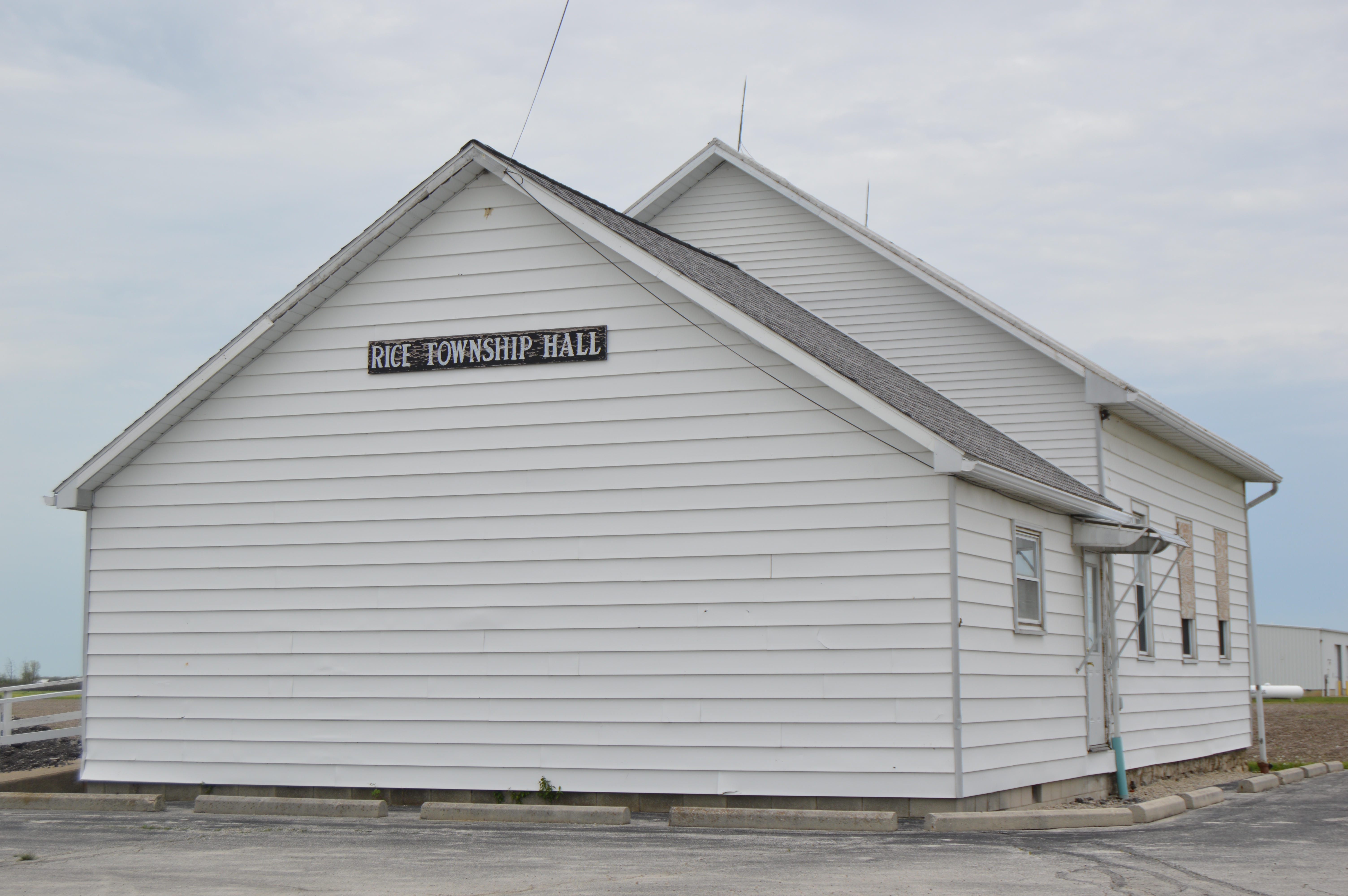 Front and western end of the Rice Township hall, located at the junction of State Route 19 and County Road 119 in Rice Township, Sandusky County, Ohio, United States.